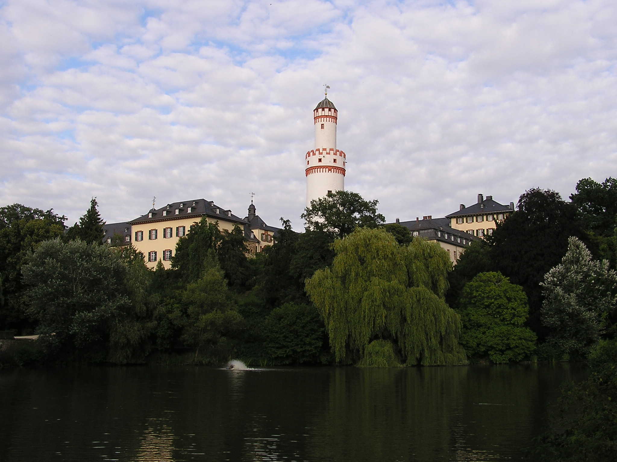 Bad Homburg's Schloss